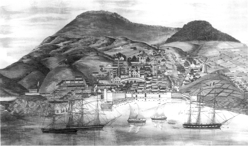 Detail of "Whaling Voyage Round the World," ca.1848, a panorama by Benjamin Russell (1804-1885) & Caleb P. Purrington (1812-1876).